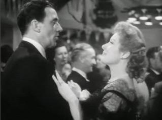 Cropped screenshot of Walter Pidgeon and Greer Garson from the trailer for the film The Miniver Story